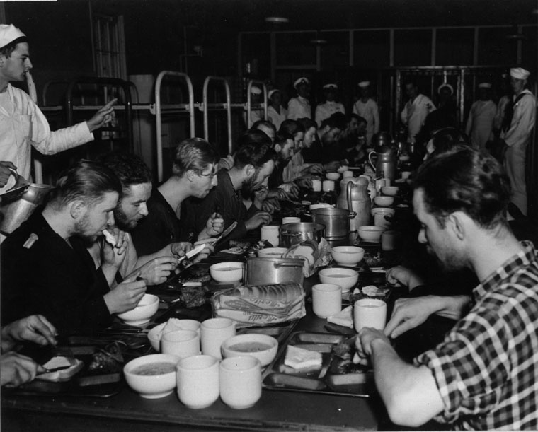 This is the survivors of U-352 eating lunch.